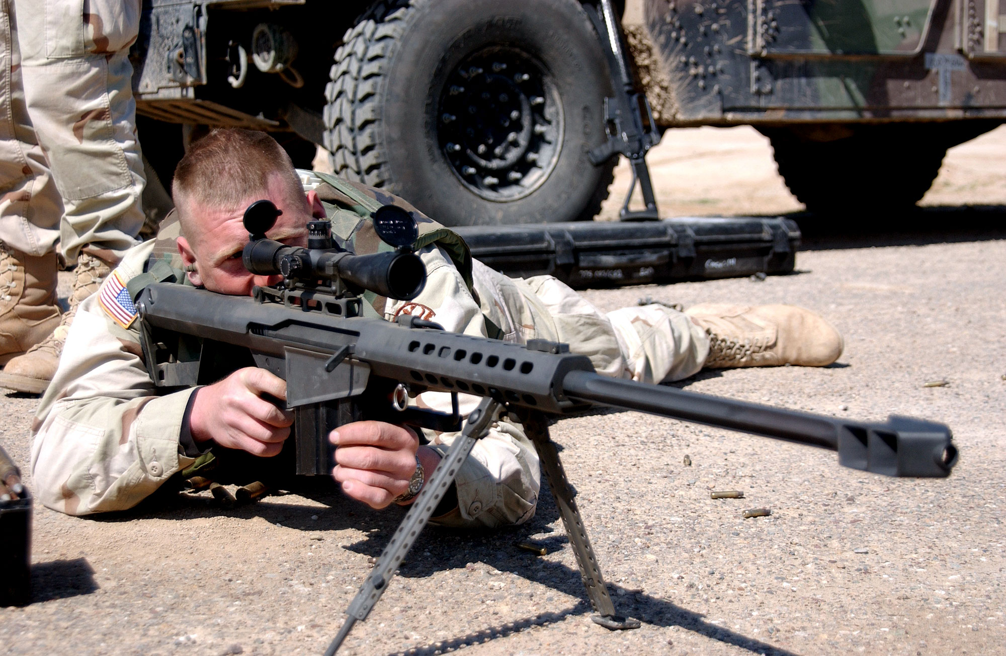 An airman with the 506th Expeditionary Civil Engineer Squadron test fires a .50-caliber M-82 Barrett Sniper Rifle at Forward Operating Base McHenry, Kirkuk, Iraq, March 26, 2005. The 506th uses the rifle for long-range detonation of improvised explosive devices.